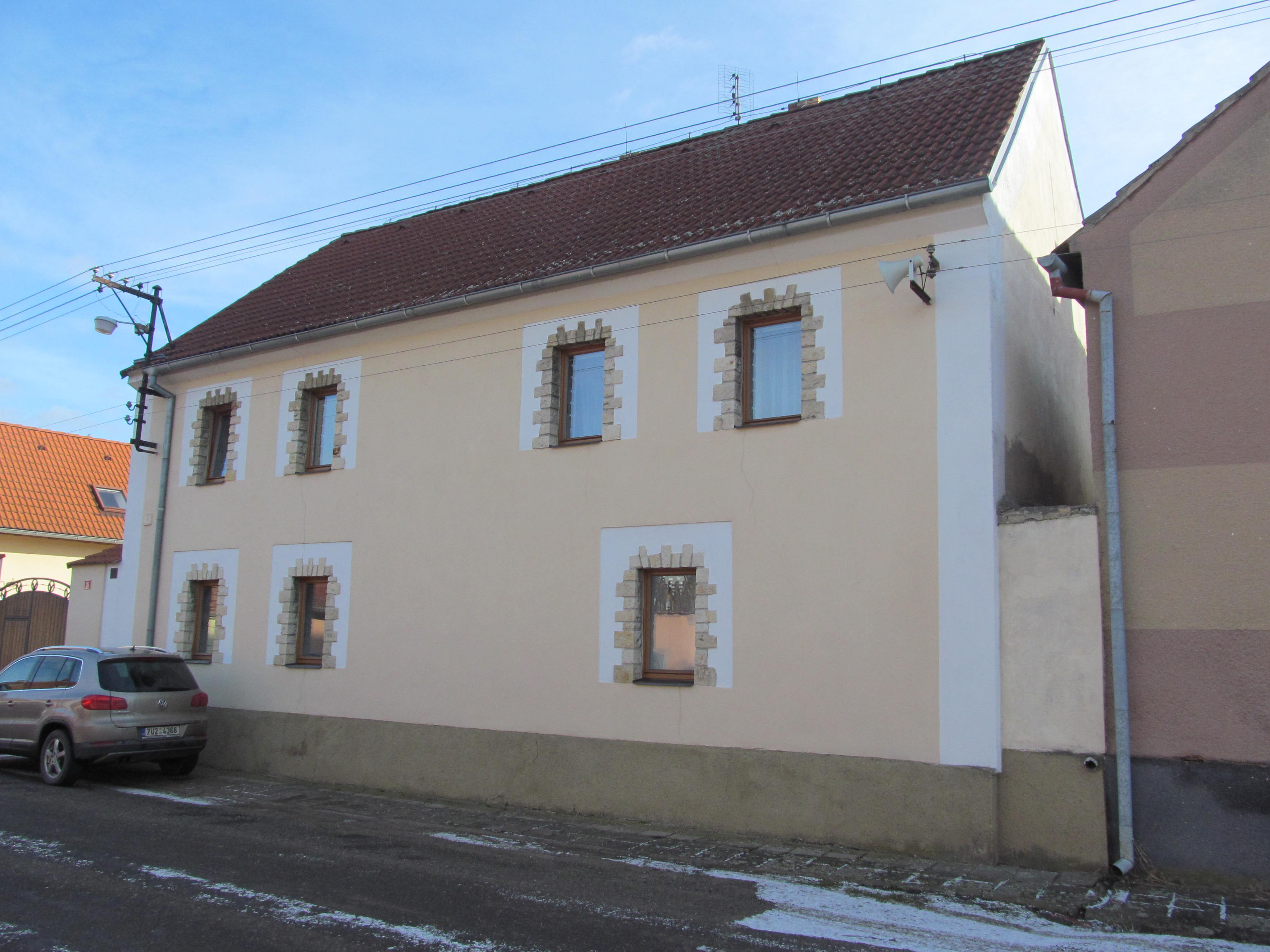 House No 35 in Pátek